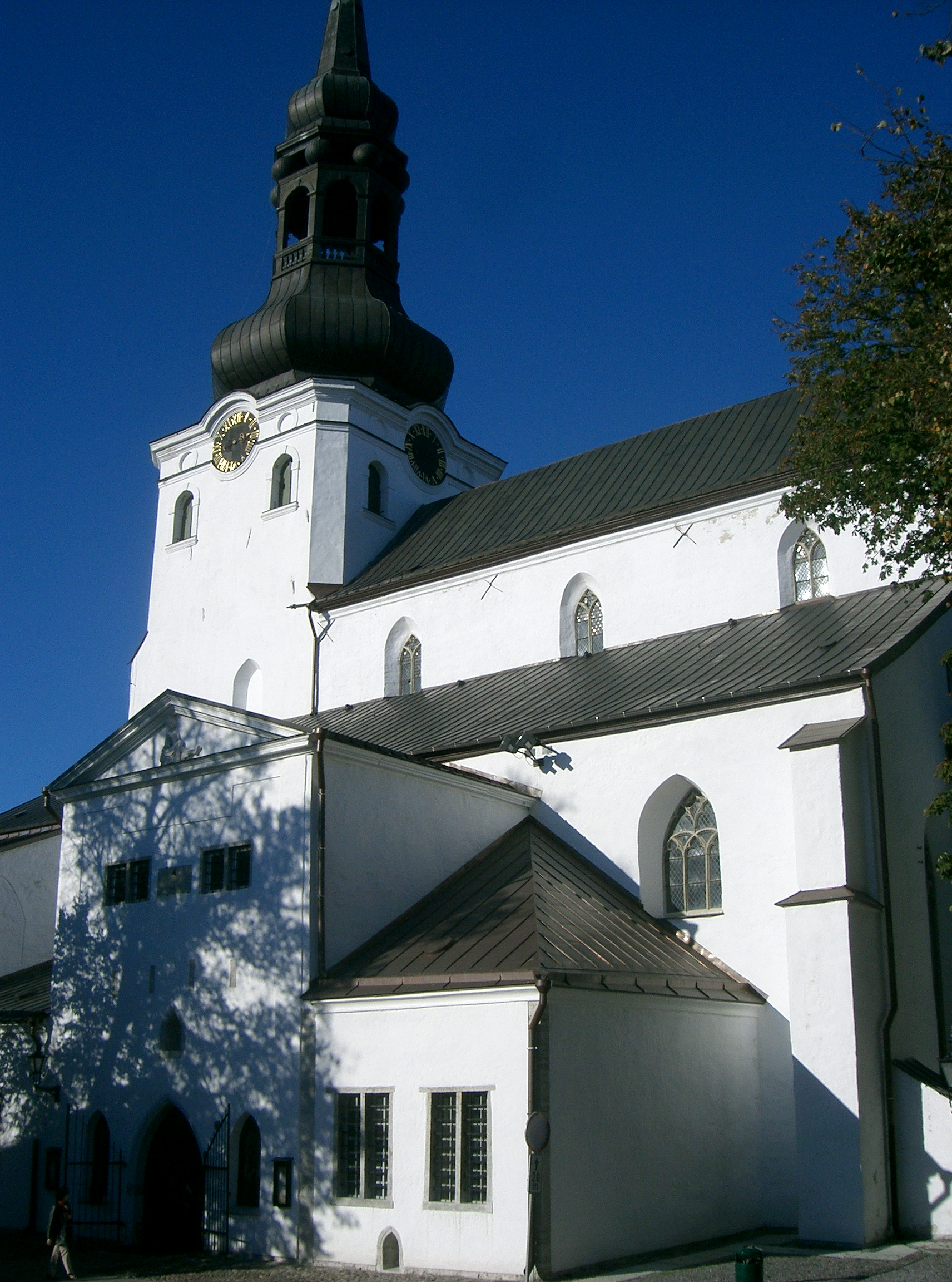 Tallinn, Cathedral of Saint Mary the Virgin. View from south.